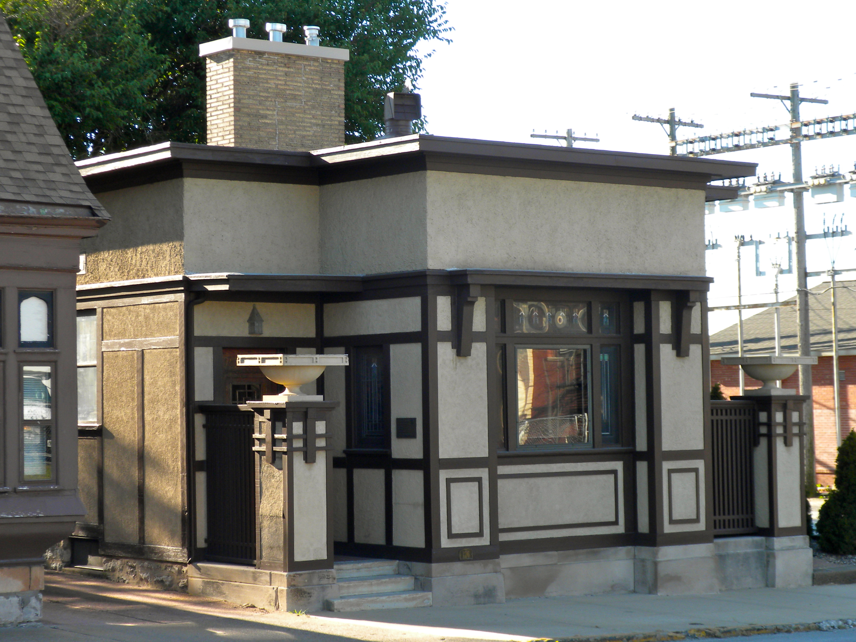 Ernest M. Wood Office and Studio on NRHP since August 12, 1982. At 126 N. 8th St., Quincy, Illinois. Architect's office in the Prairie style of the day.